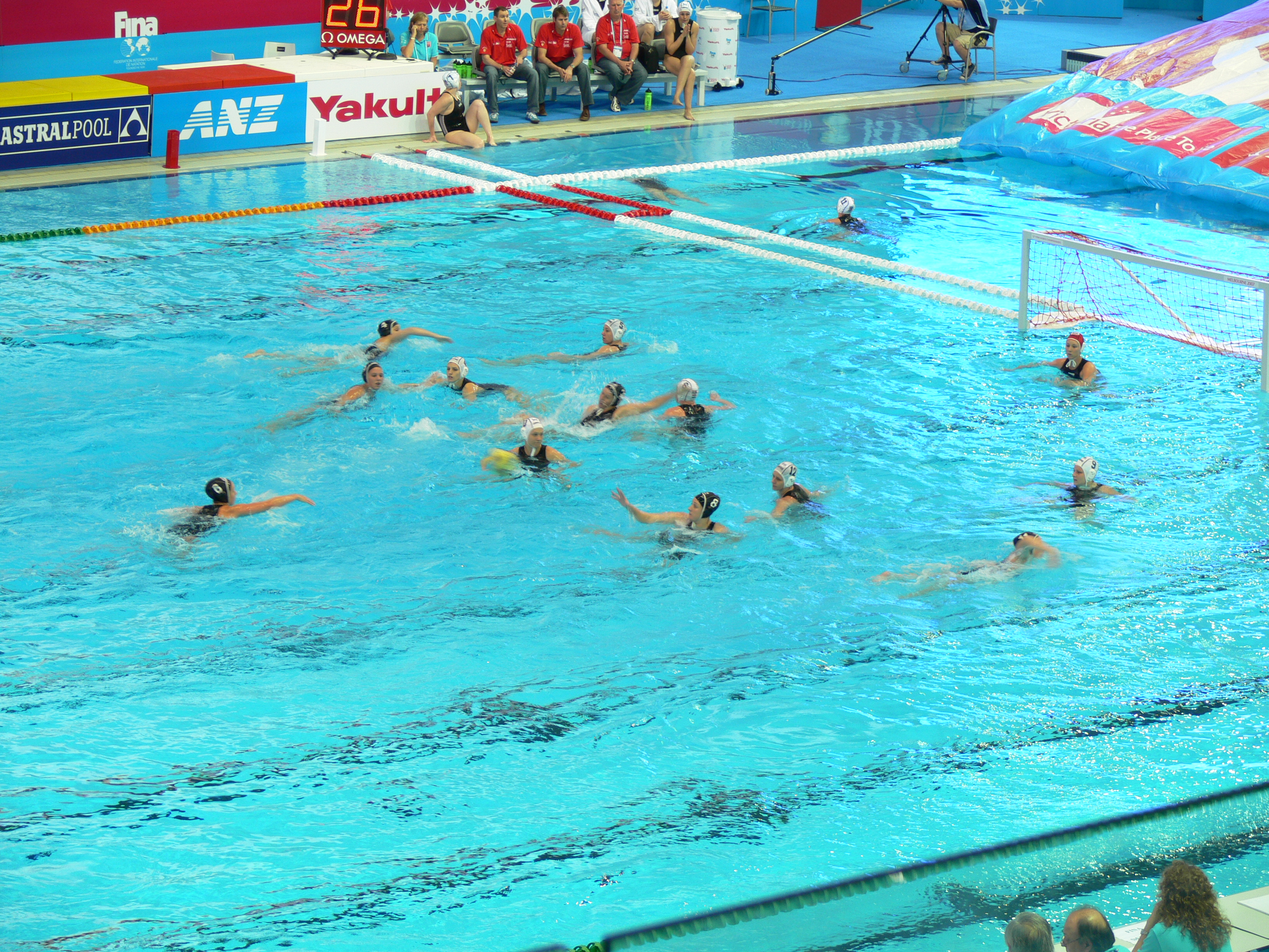 w:2007 World Aquatics Championships women's water polo tournament.